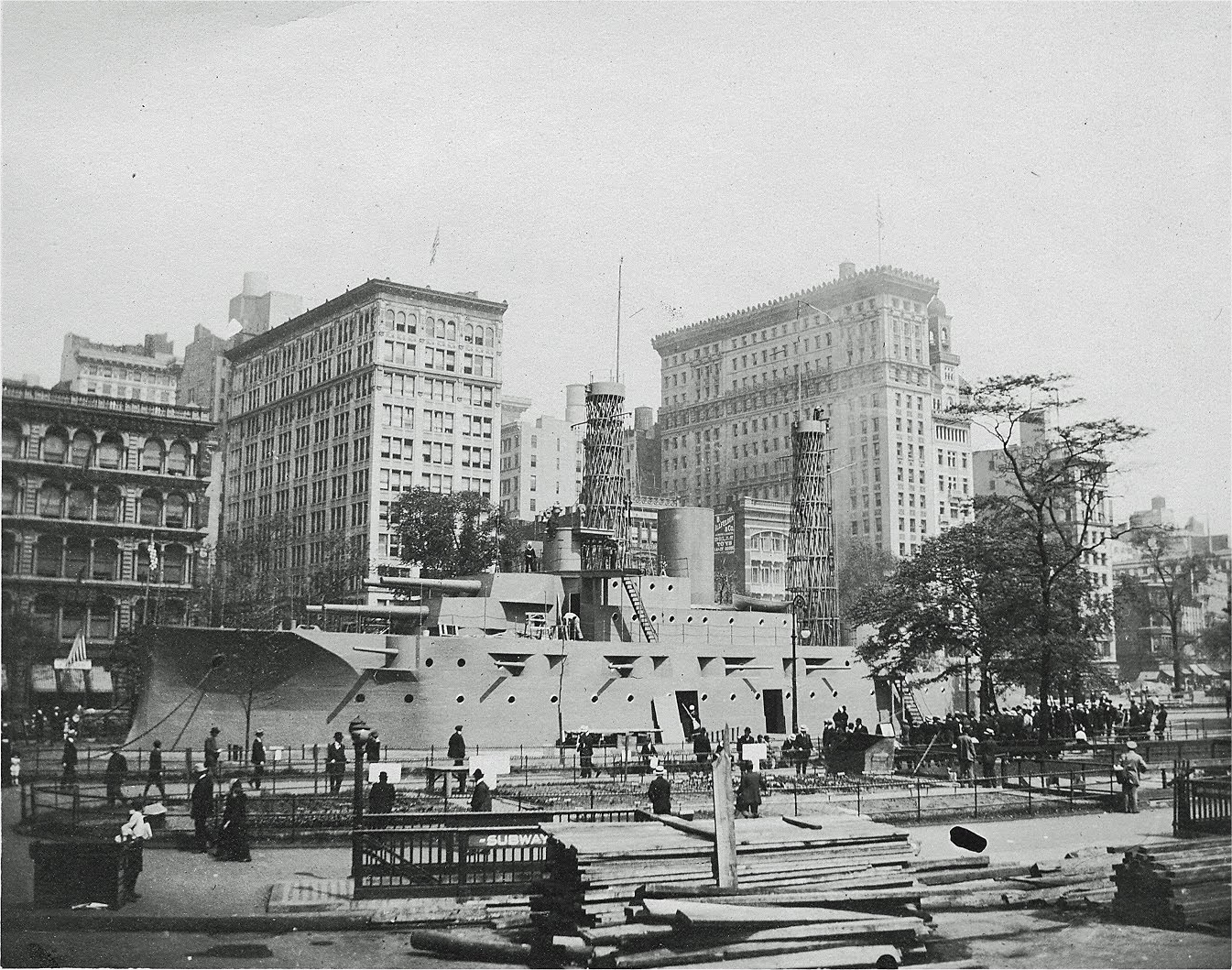 New York, 1917. "Landship Recruit on Union Square." The U.S.S. Recruit, a wooden battleship erected by the Navy, served as a World War I recruiting station at Union Square from 1917 to 1920, when it "set sail" for Coney Island.